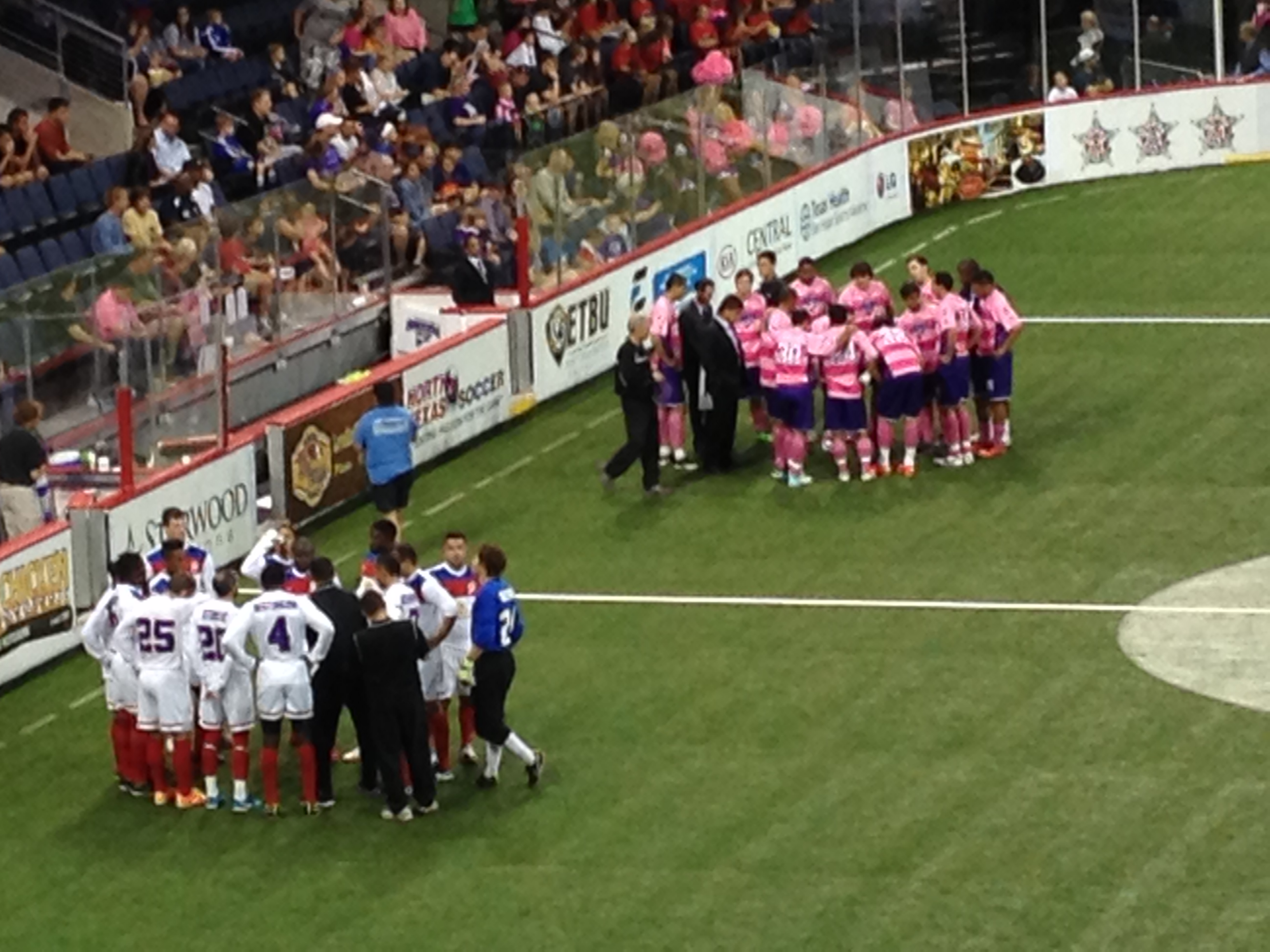 First MASL game Missouri Comets at Dallas Sidekicks. Dallas wearing special pink breast cancer awareness jerseys.